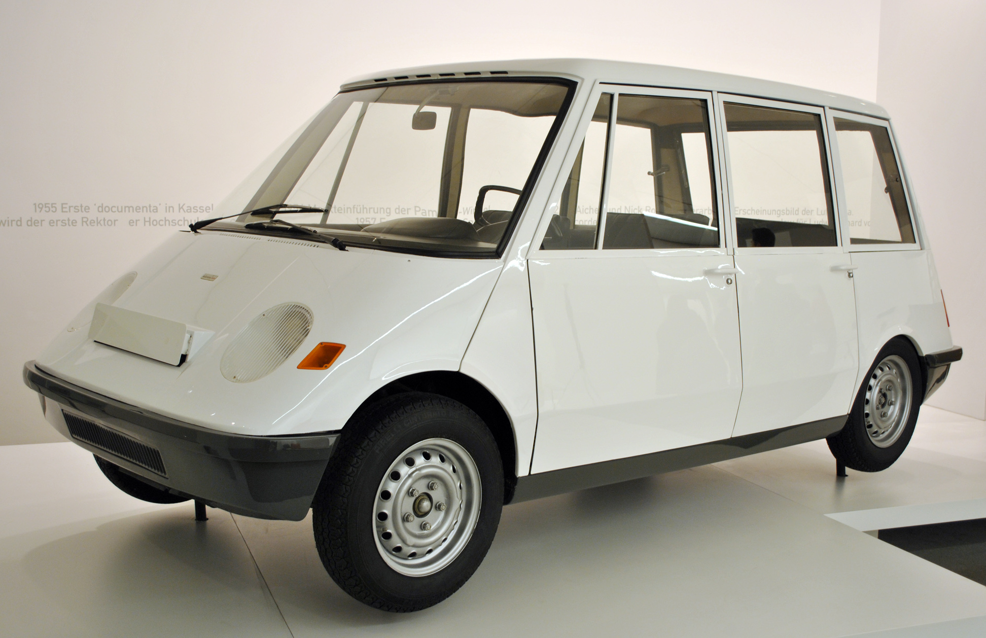 Autonova Fam designed by Fritz B. Busch, Michael Conrad and Pio Manzu at Pinakothek der Moderne, Munich